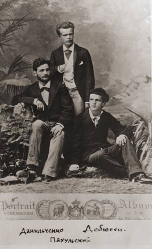 Members of a trio formed for Nadezhda von Meck. From left, Pyotr Danilchenko (violin), Władysław Pachulski (cello) and Claude Debussy (piano). On receipt of this photo, Tchaikovsky wrote to Mrs. Meck on October 14: “Bussy (Debussy) has something in his face and in his hands which vaguely recalls Anton Rubinstein in his youth. God grant that his fate as happy as that of the "king of pianists"!